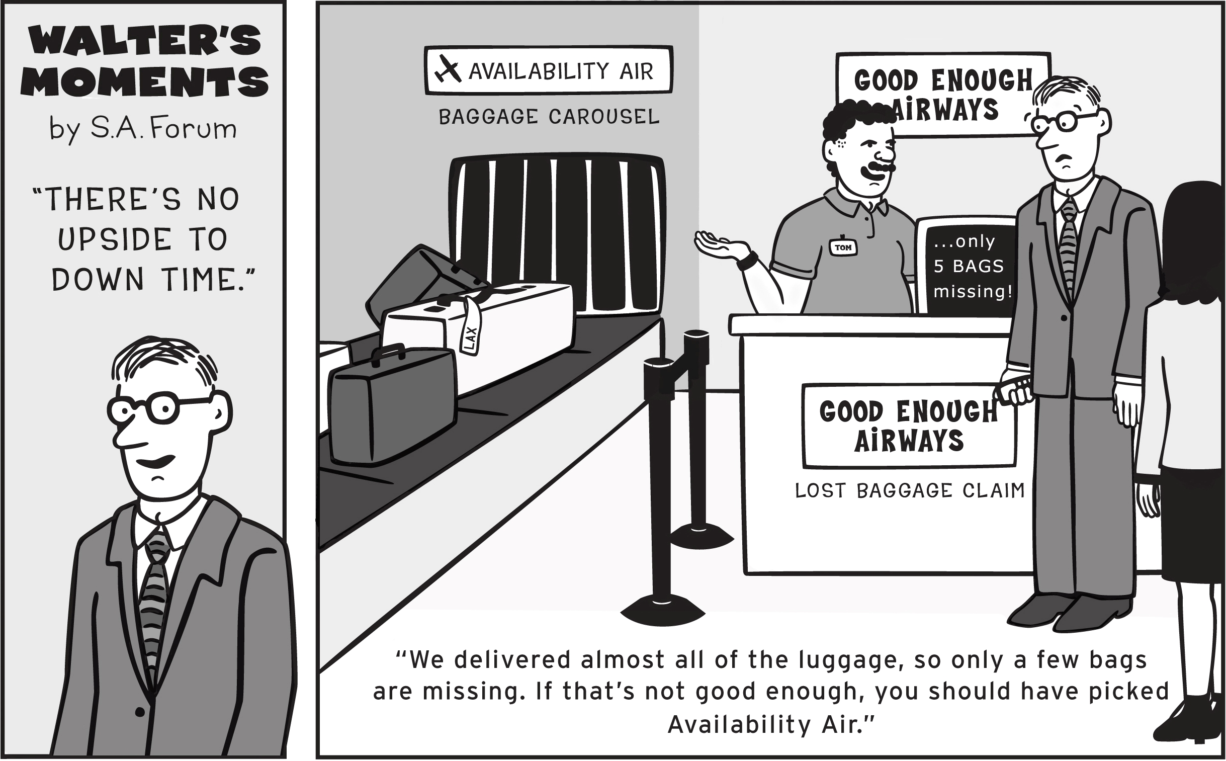 The SA Forum “Walter’s Moments” cartoon series was designed to grow awareness of service availability based solutions and convey the critical importance of service availability in our everyday lives.